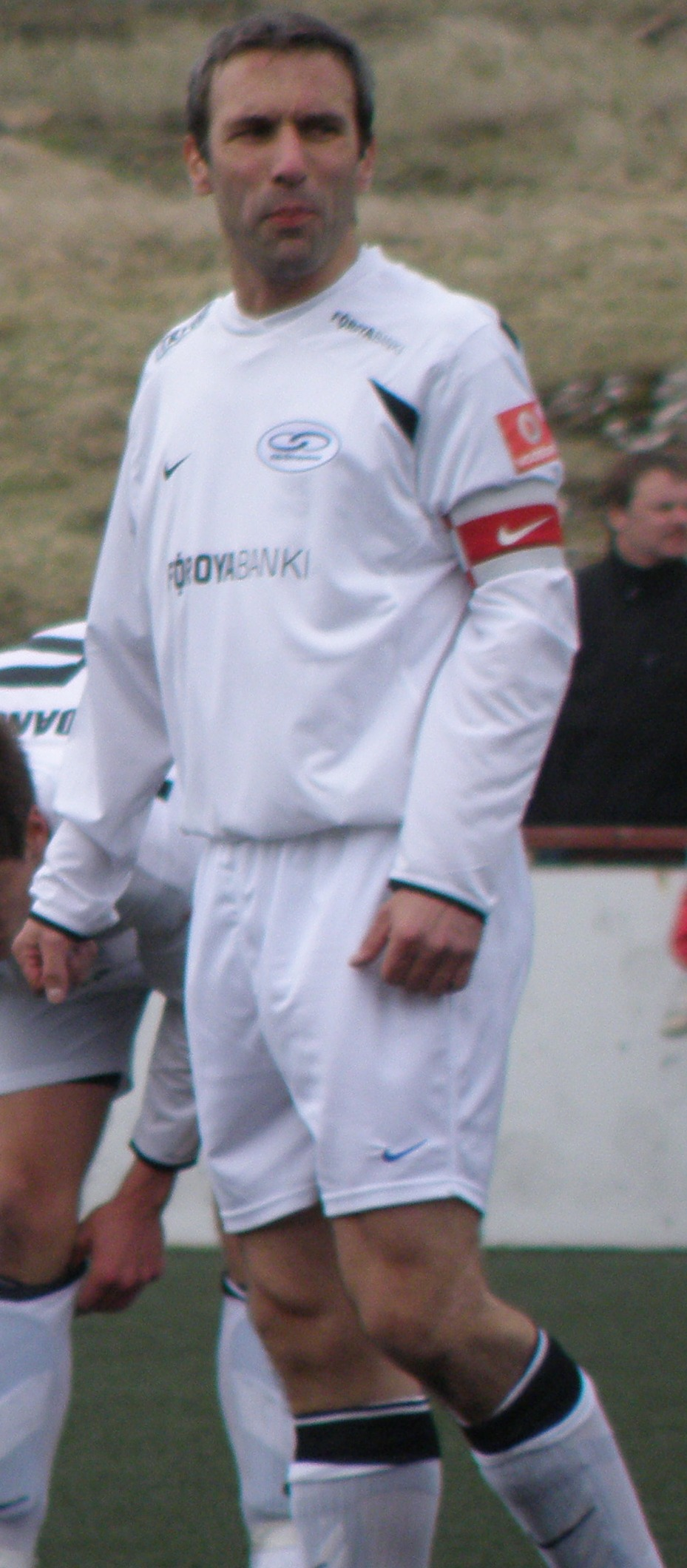 Egil á Bø is a Faroese football player, a defender. He plays for EB/Streymur and for the Faroe Islands national team. This photo was taken at the Faroese Cup match between FC Suðuroy and EB/Streymur in Vágur. EB/Streymur won 4-1. Føroyskt: Egil á Bø er føroyskur fótbóltsleikari, verjuleikari. Hann spælir við EB/Streymi í Vodafonedeildini og á føroyska A-landsliðnum.